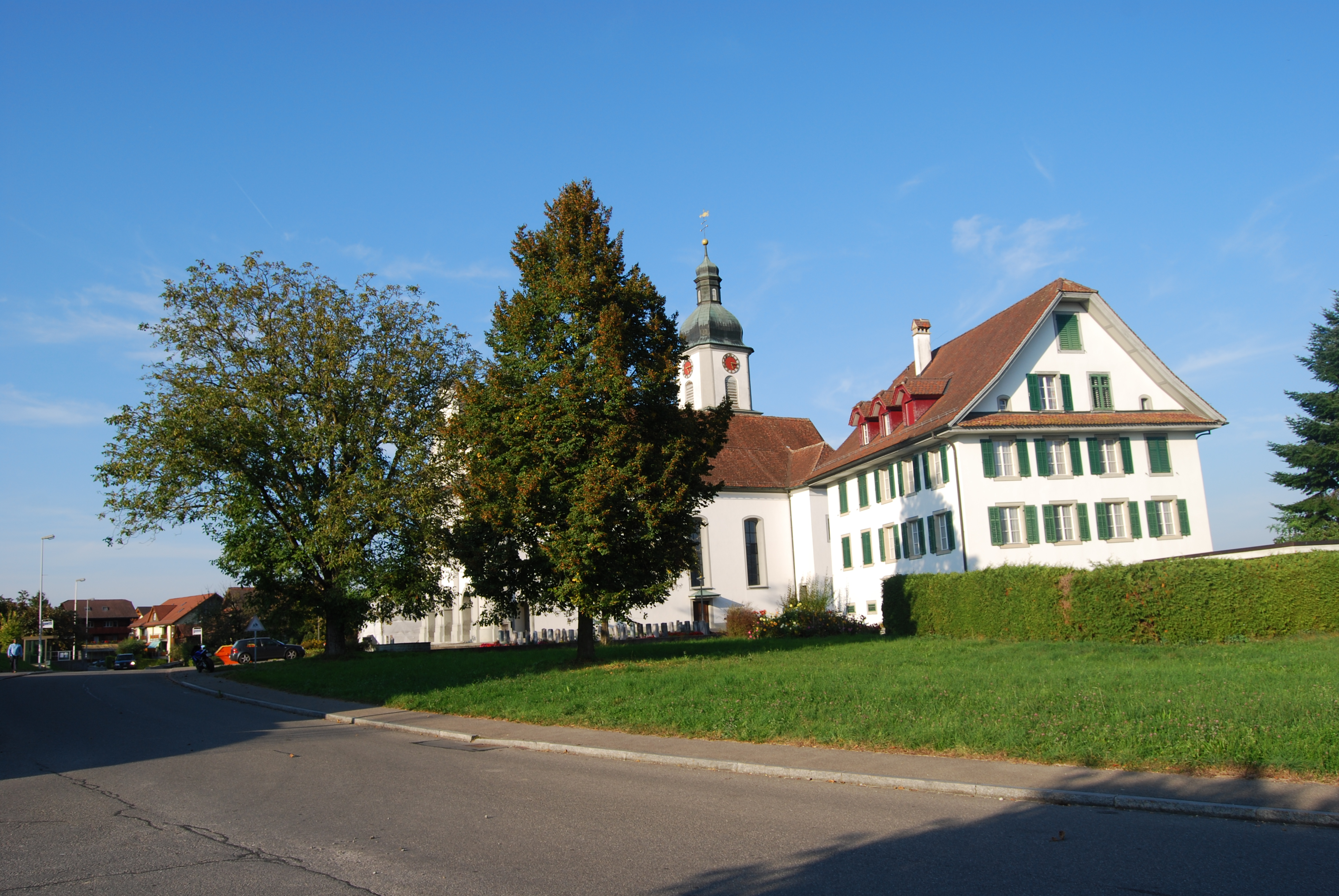 Church of Dietwil, canton of Aargau, SwitzerlandEsperanto: Preĝejo de Dietwil, Kantono Argovio, Svislando